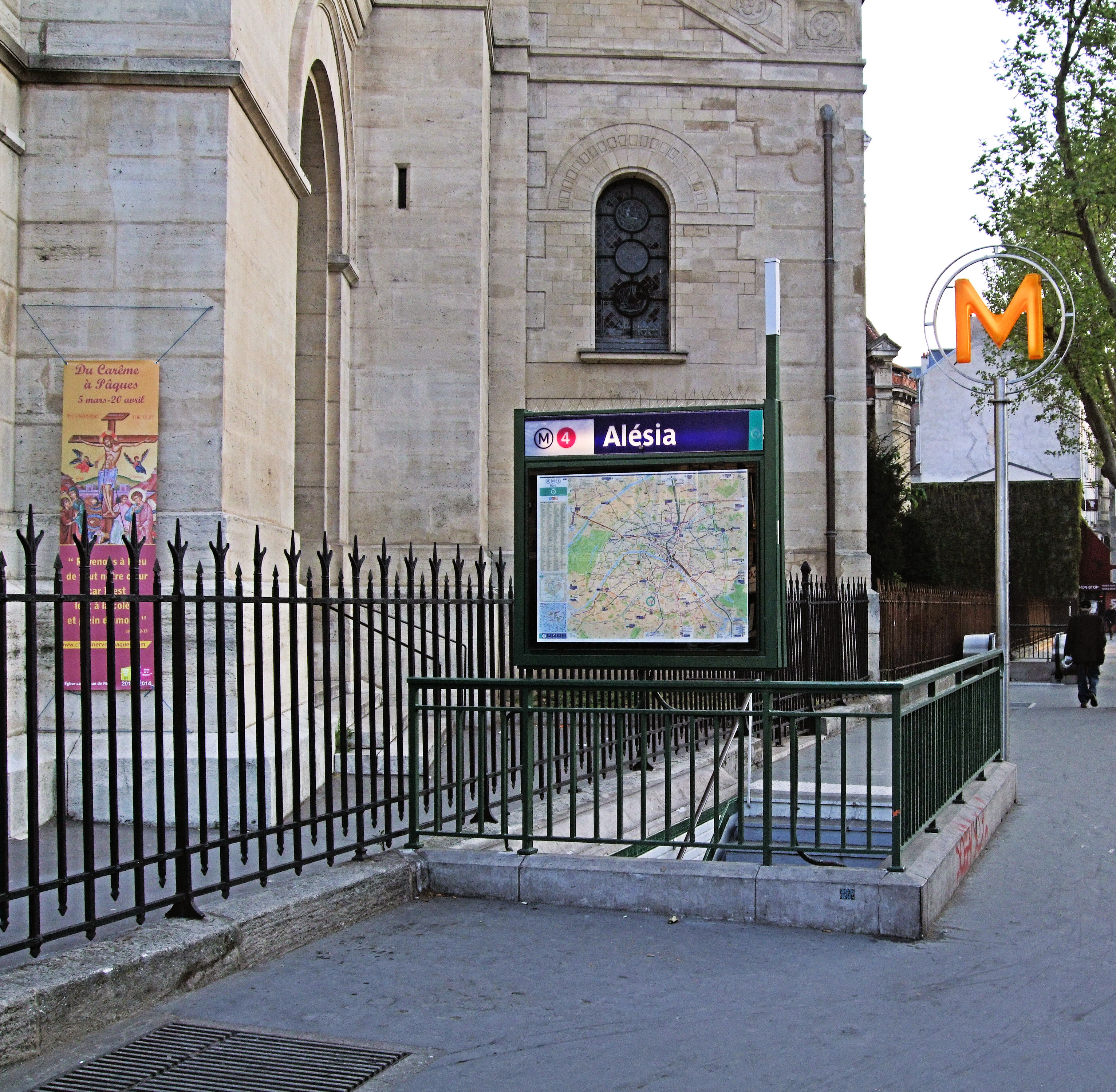 Alésia is a station of the Paris Métro on line 4 in the 14th arrondissement. The line 4 platforms were opened on 30 October 1909 when the southern section of the line opened between Raspail and Porte d'Orléans. The name refers to Rue d'Alésia, named for the Battle of Alesia between the Gauls of Vercingetorix and the Romans of Julius Caesar.